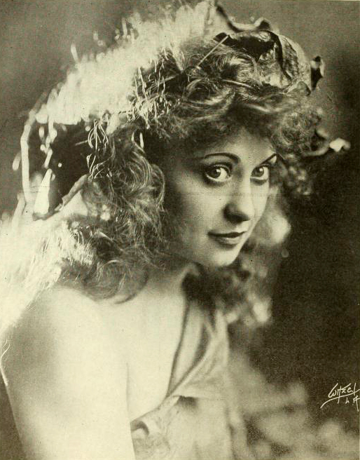 Advertisement in Moving Picture World, May 1919 with Jackie Saunders.